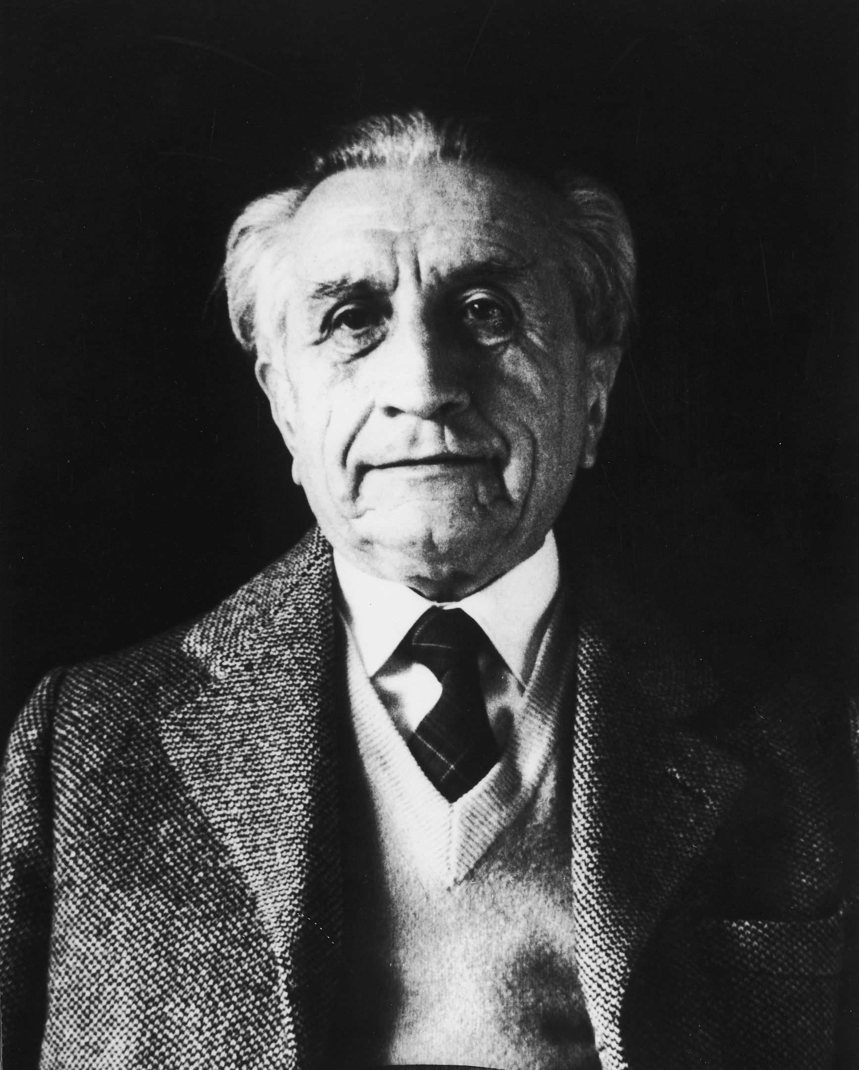 Antonio Rostagni (1903-1988), Italian physicist. He was president of Venice's Institute of Science, Literature and Arts